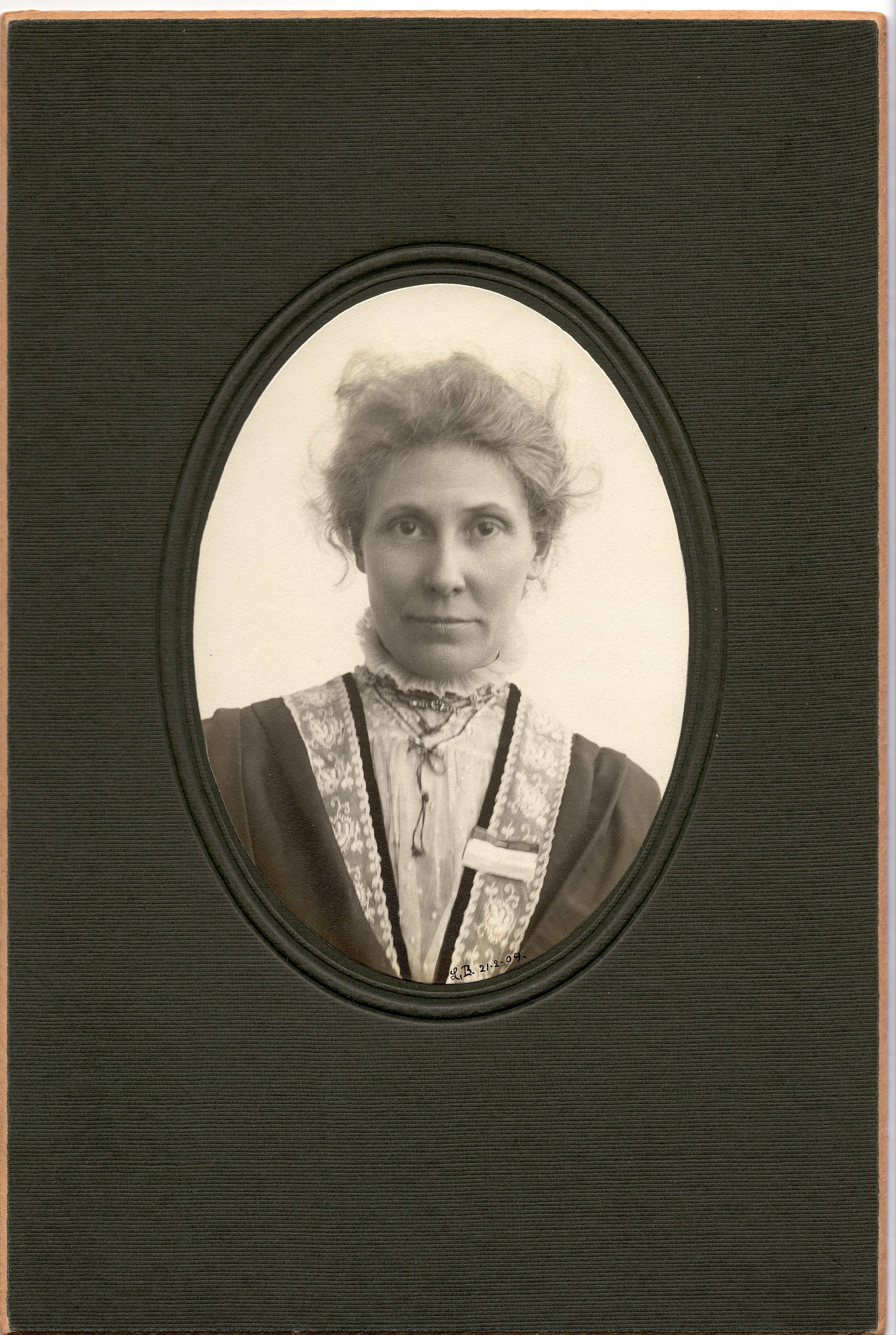 Minnie Baldock 1906 - 1914 so lets guess 1910 TWL 2002 47